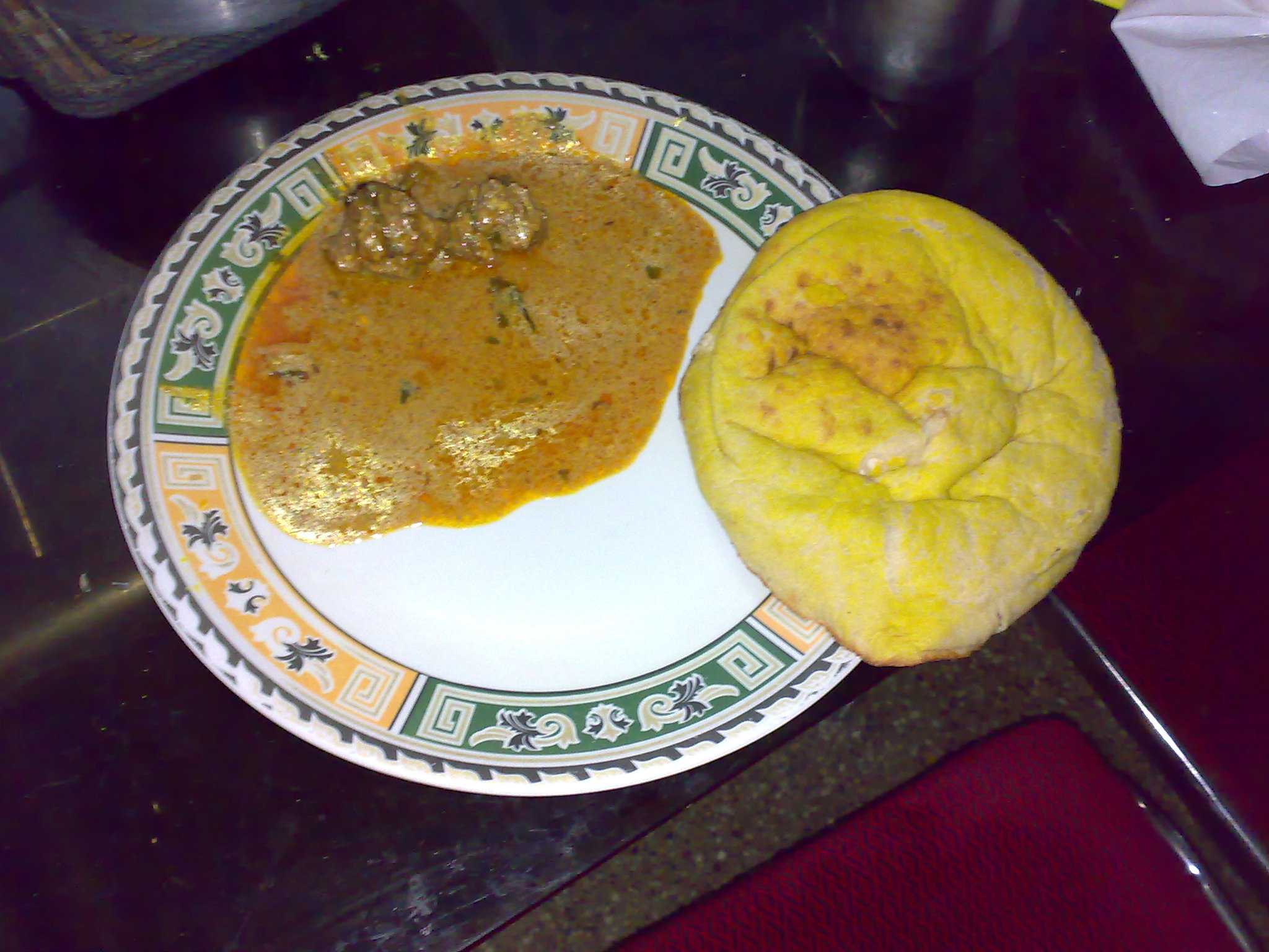 Naan Qalia, a dish well known in Deccan region of India